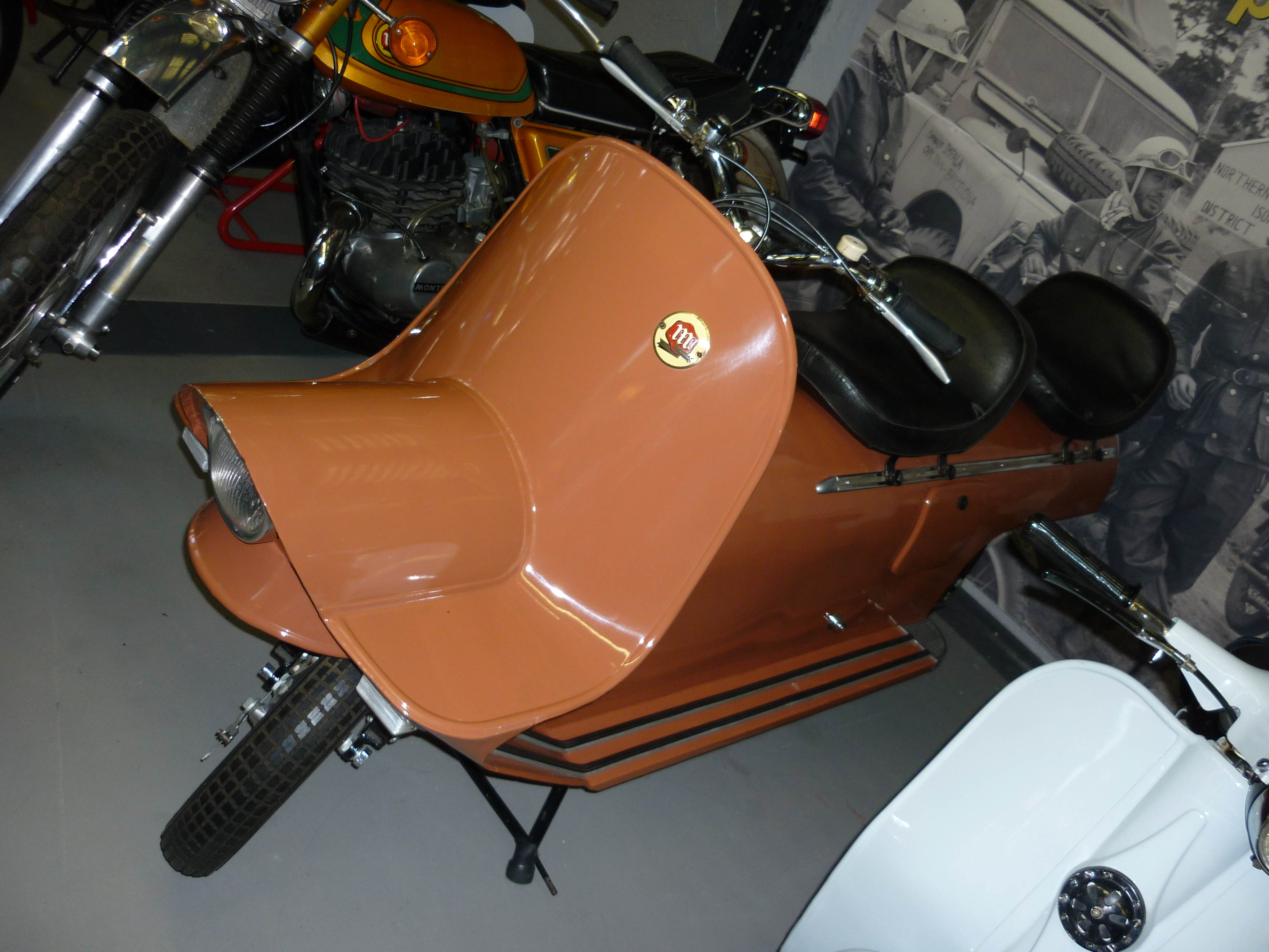 Montesa Fura (scooter) in brown, from 1958